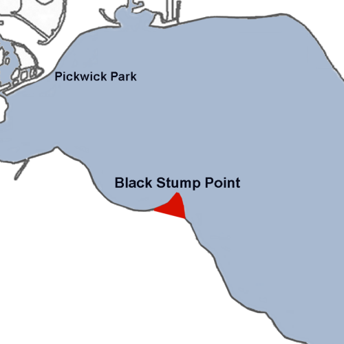 Map showing Black Stump Point, Lake Wawasee